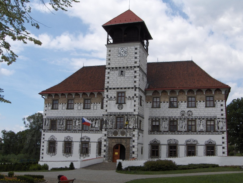 Renaissance chateau in Stará Ves nad Ondřejnicí, Ostrava-City District, Czech Republic.